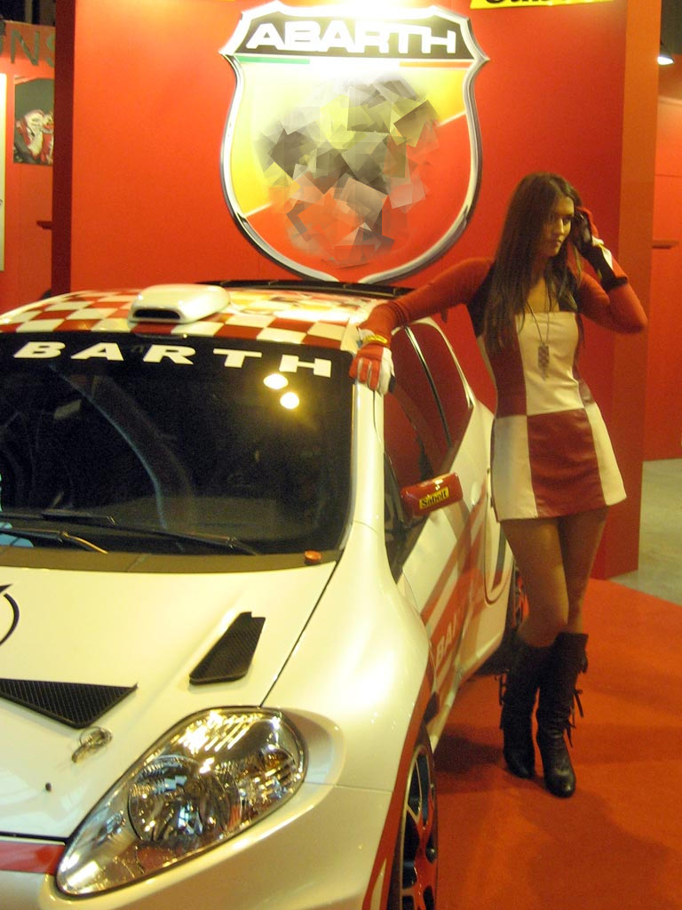 Abarth hostess in a minidress.